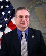 Official photo of warden (acting) Vincent "Vince" Cullen of San Quentin State Prison.